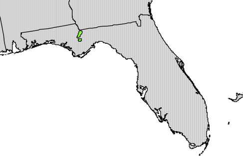 Range map of Taxus floridana